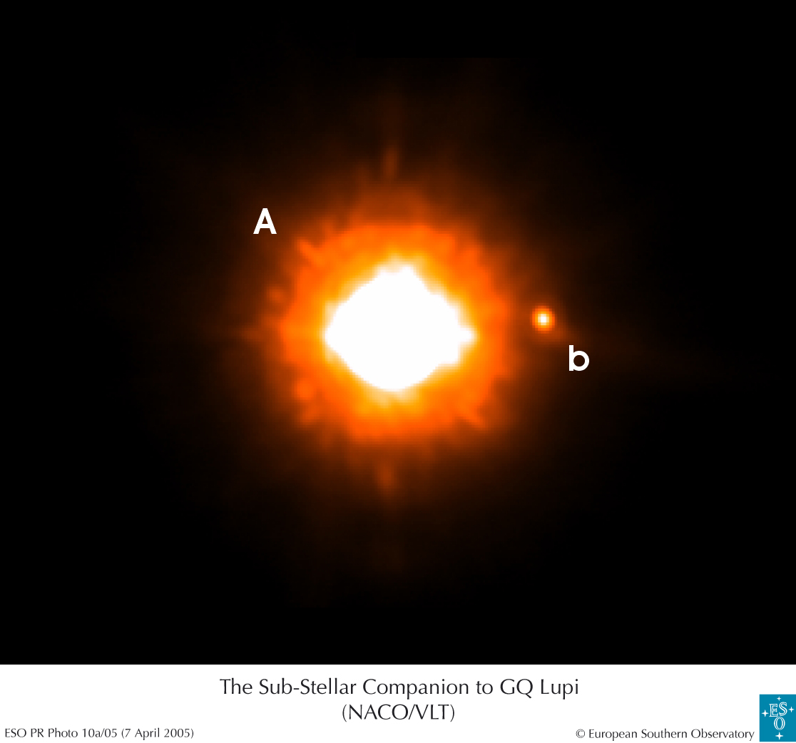 ESO PR Photo 10a/05 shows the VLT NACO image, taken in the Ks-band, of GQ Lupi. The feeble point of light to the right of the star is the newly found cold companion. It is 250 times fainter than the star itself and it located 0.73 arcsecond west. At the distance of GQ Lupi, this corresponds to a distance of roughly 100 astronomical units. North is up and East is to the left.